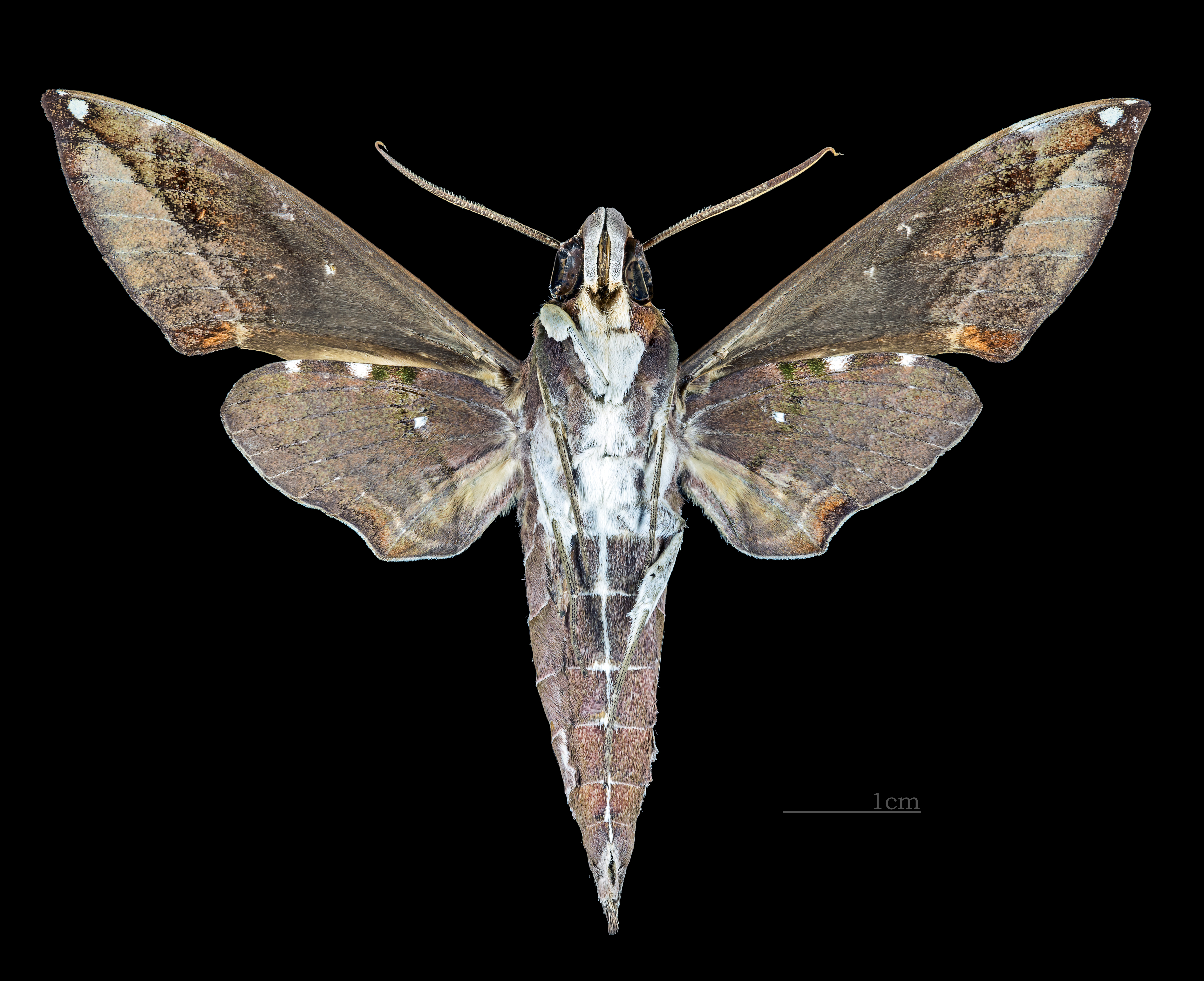 Daphnis dohertyi -△ Ventral sid Collection of the Mathematician Laurent Schwartz